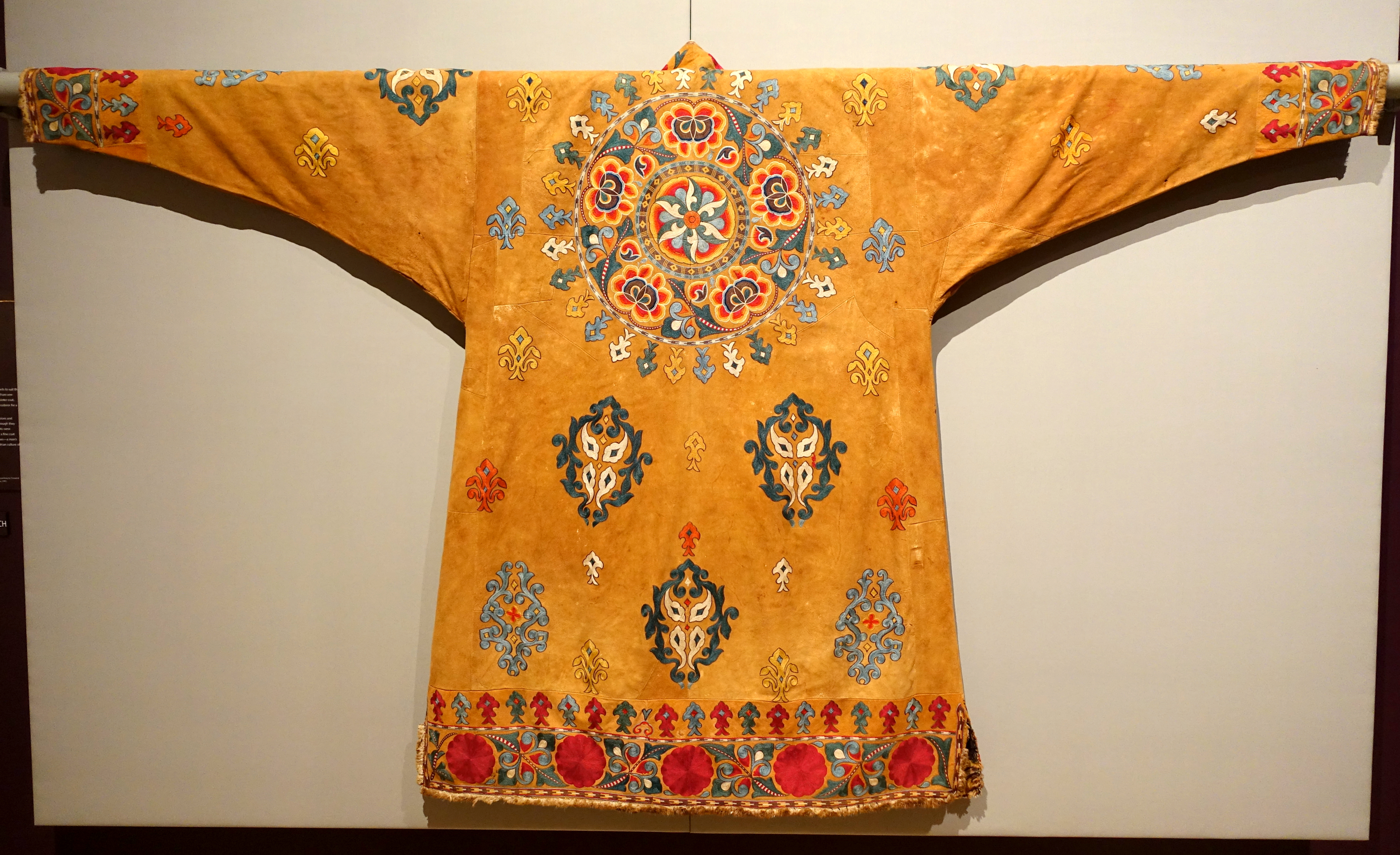 Exhibit in the Textile Museum, George Washington University, Washington, DC, USA. This work is old enough so that it is in the public domain.